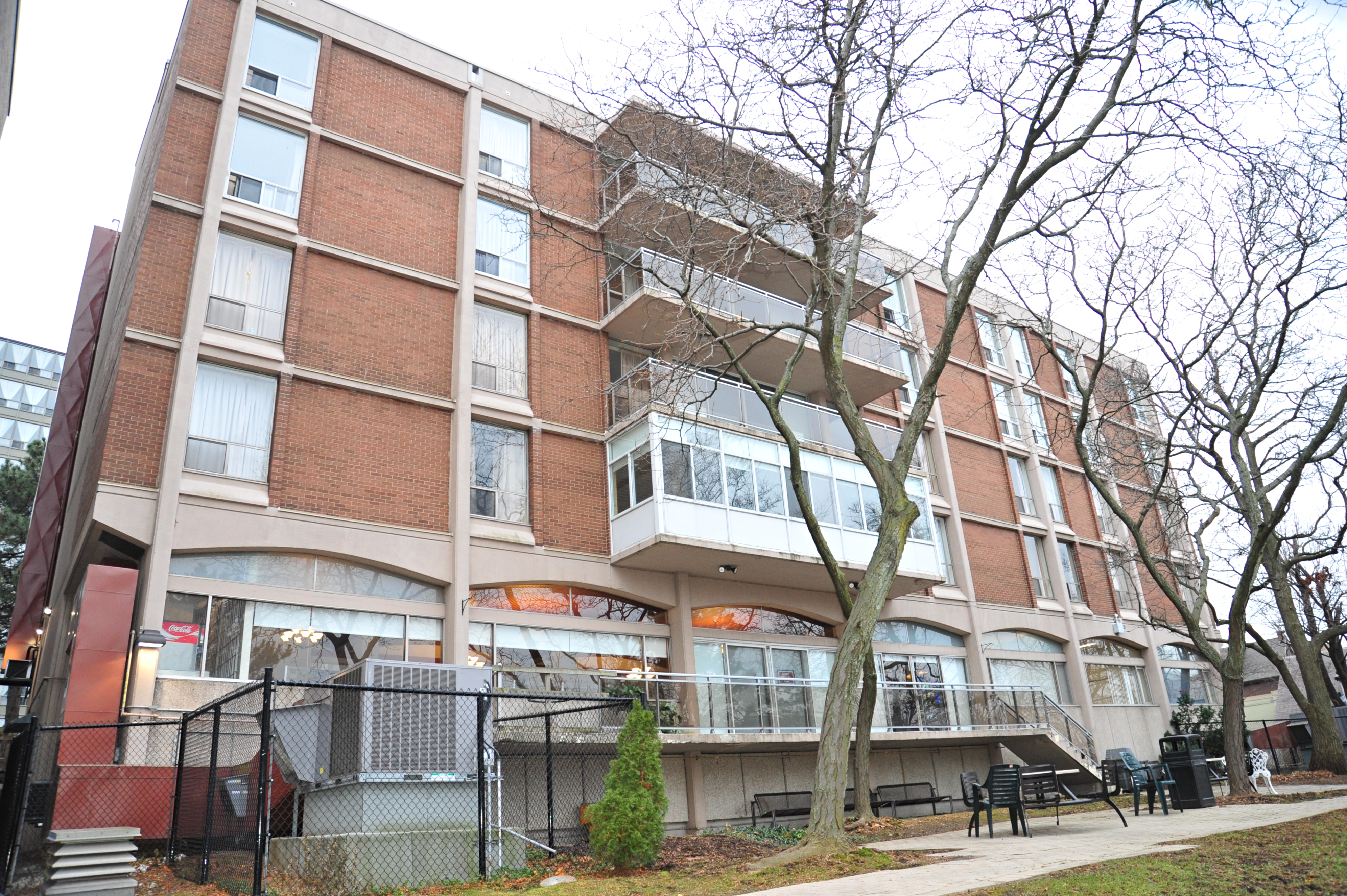 Arkledun Residence, Columbia International College